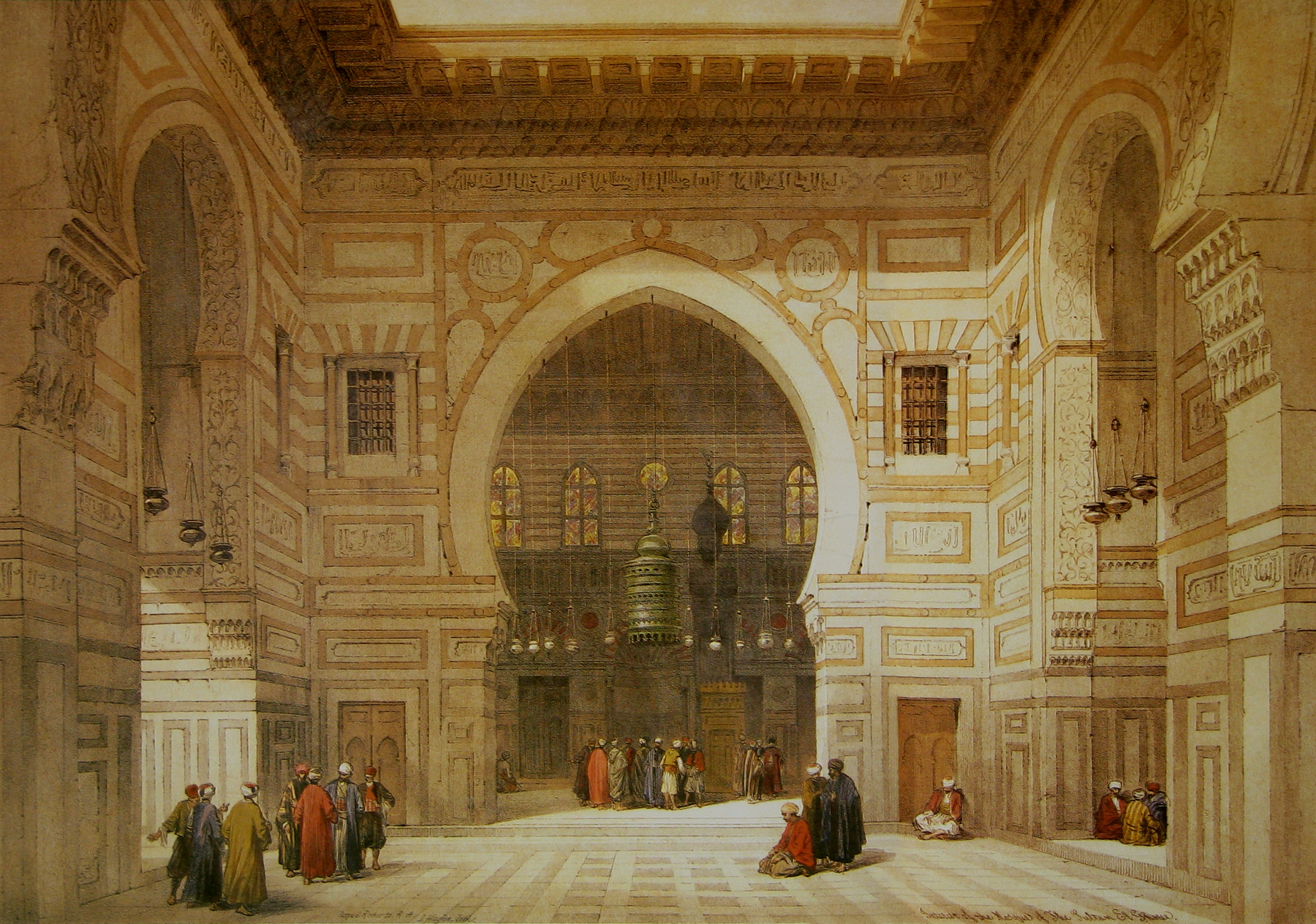 Interior of the Mosque of the Sultan El Ghoree